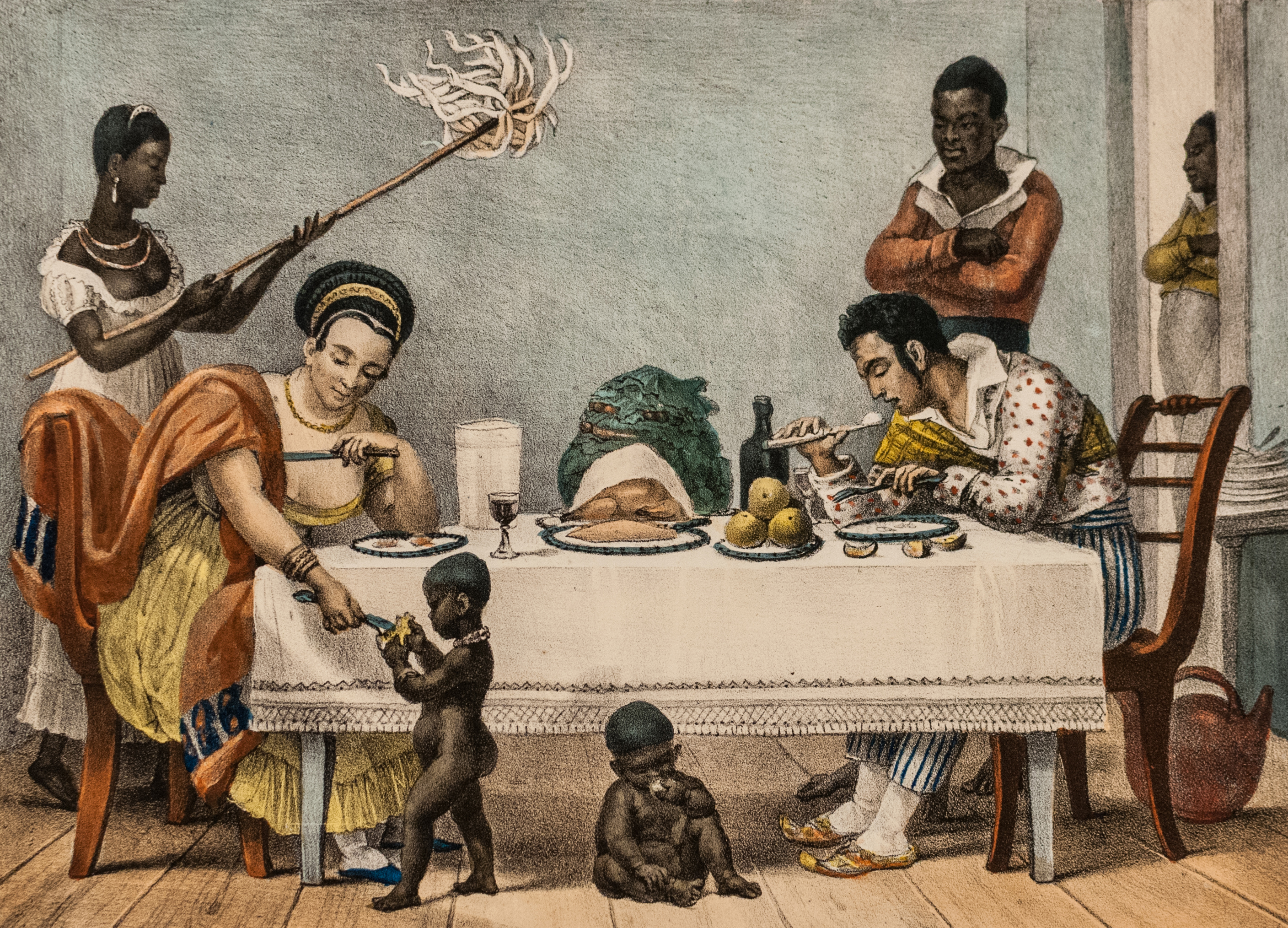 The Dinner, an 1839 lithograph that drives home the great divide between master and servant, is the work of French artist Jean-Baptiste Debret (1768-1848) who spent 15 years in Brazil capturing the daily life of a society built on slavery.